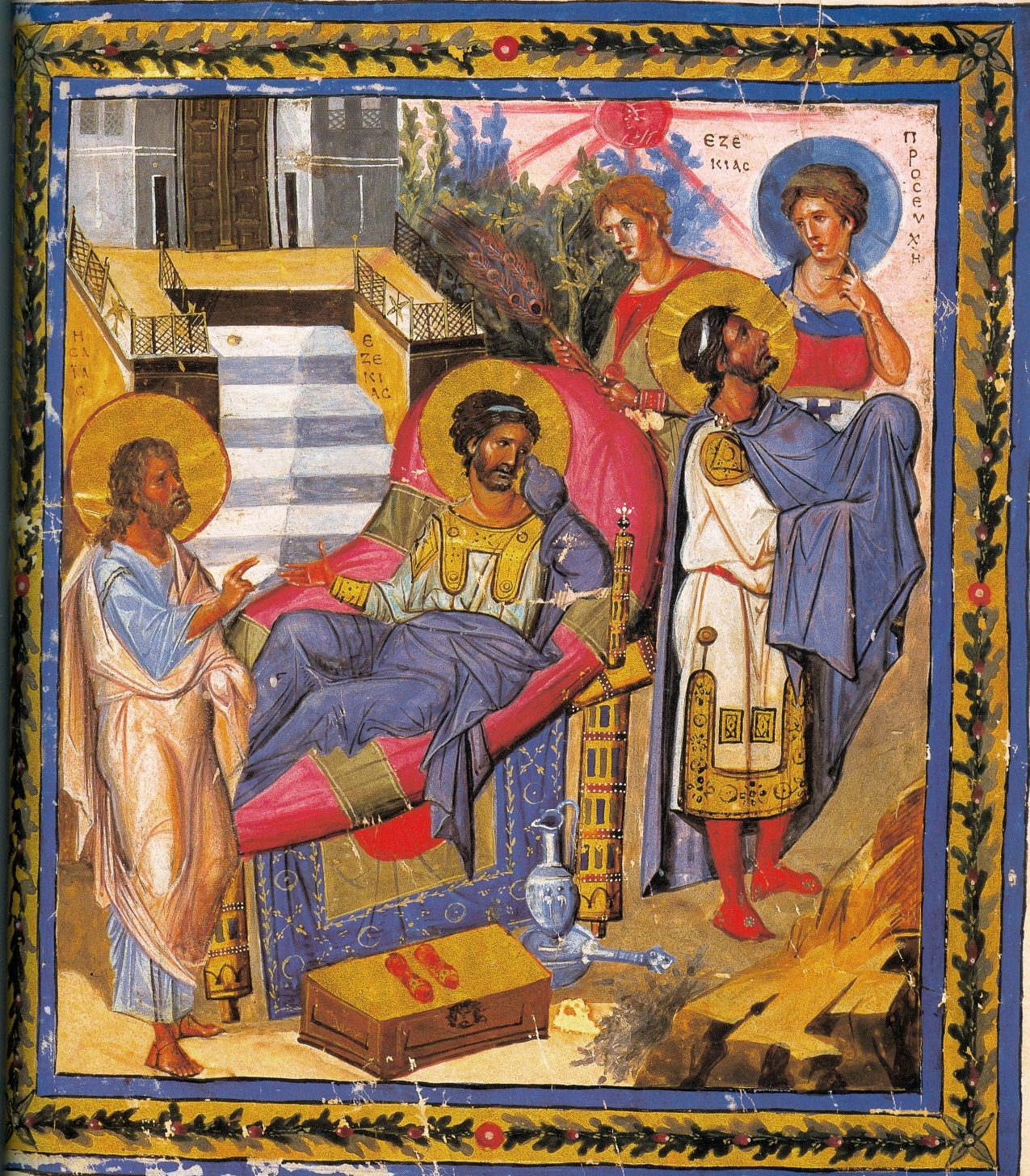 Paris psalter, BnF MS Grec 139, folio 436v.